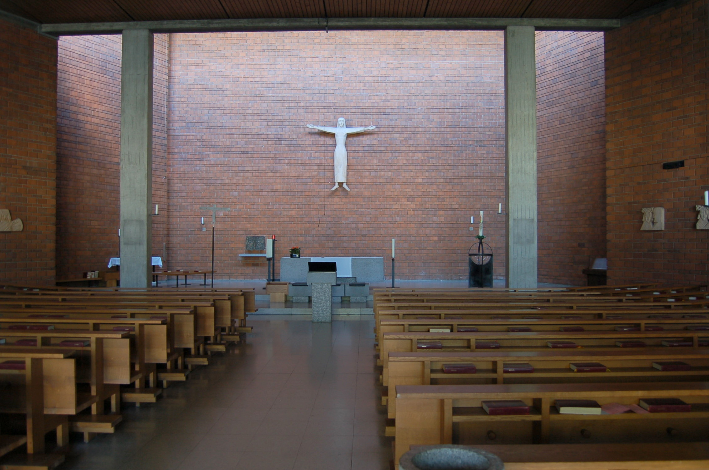 Interior of Poetzleinsdorf parish church, Vienna's 18th district